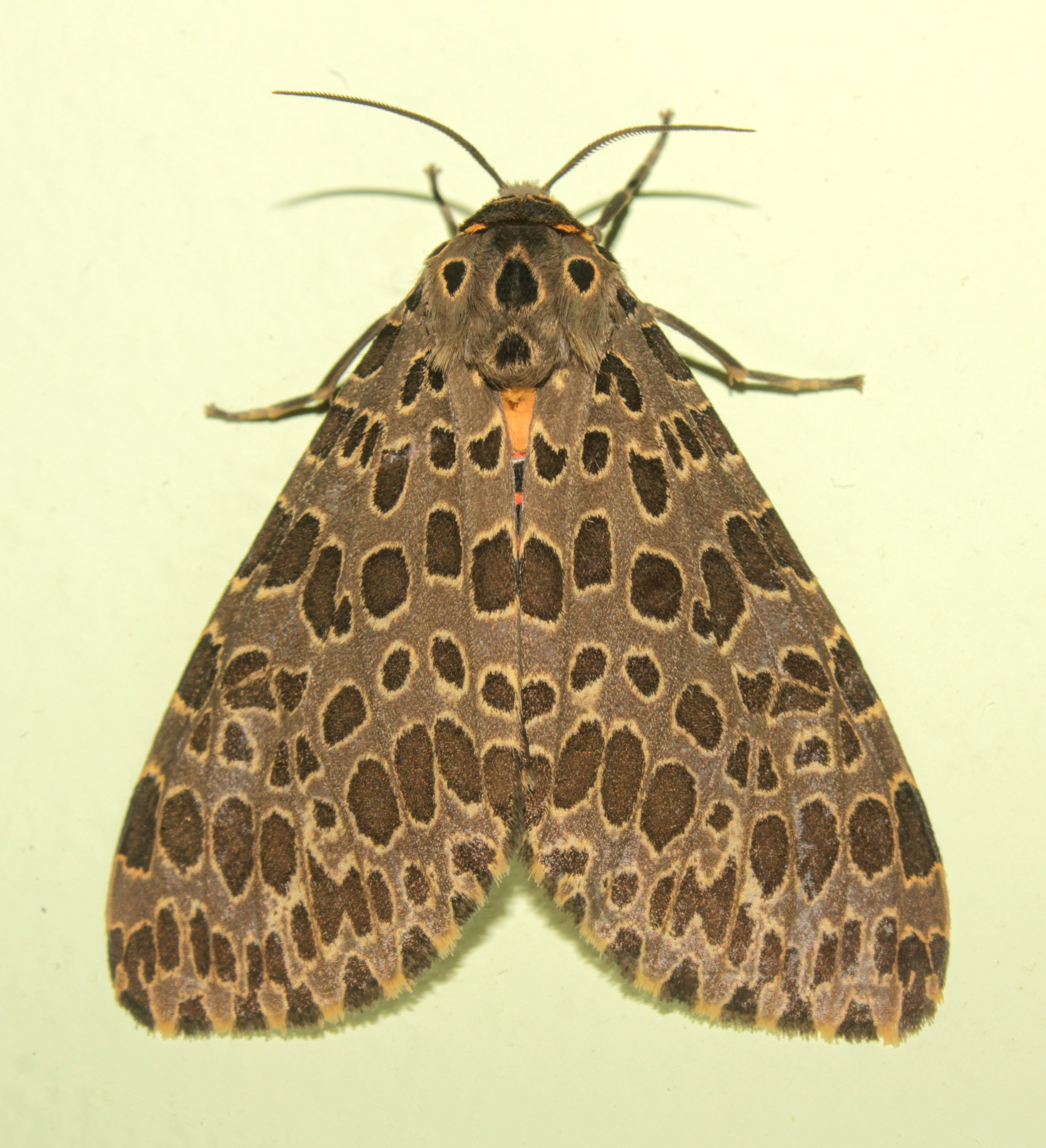 An Olepa ocellifera moth. Photographed near Kanjirappally.